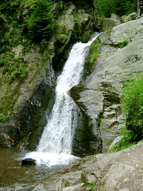 Lower step of Rešov waterfalls, Czech Republic.